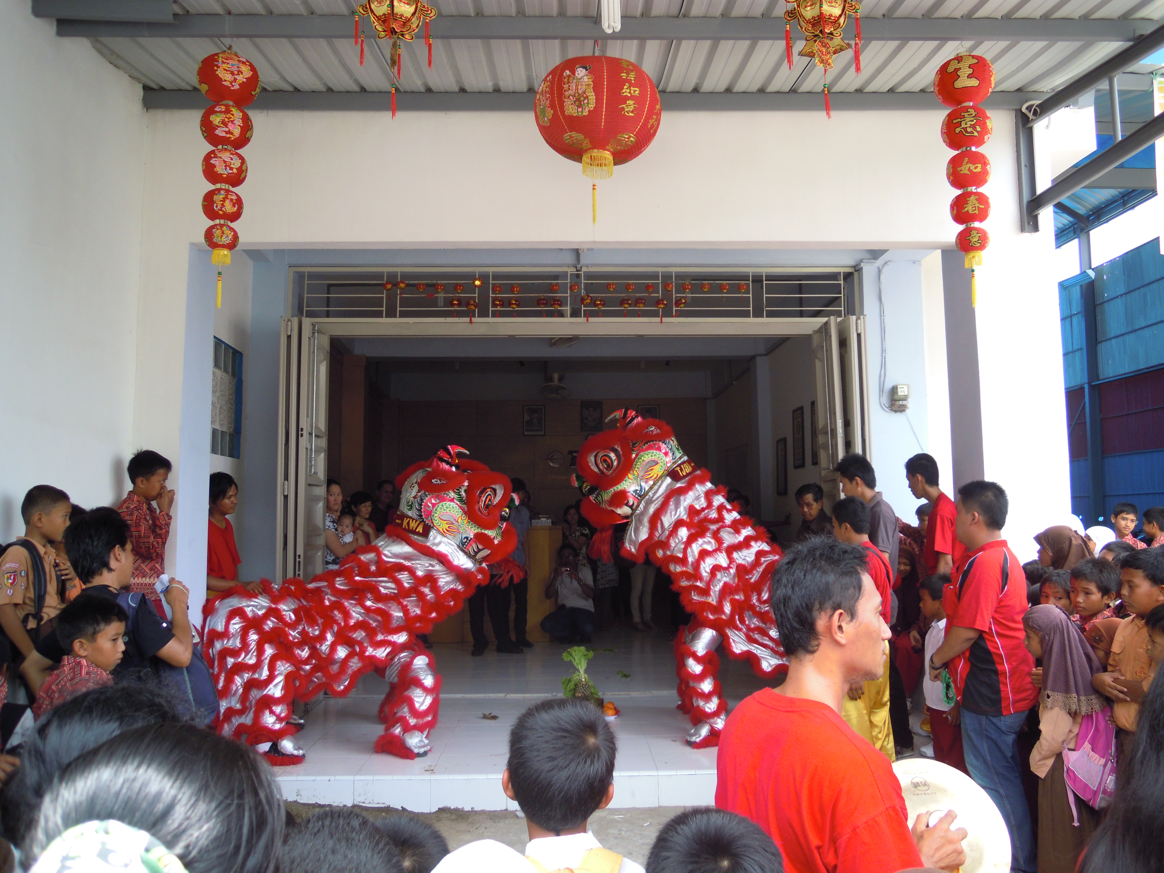 Barongsai at Padang, West Sumatra, Indonesia